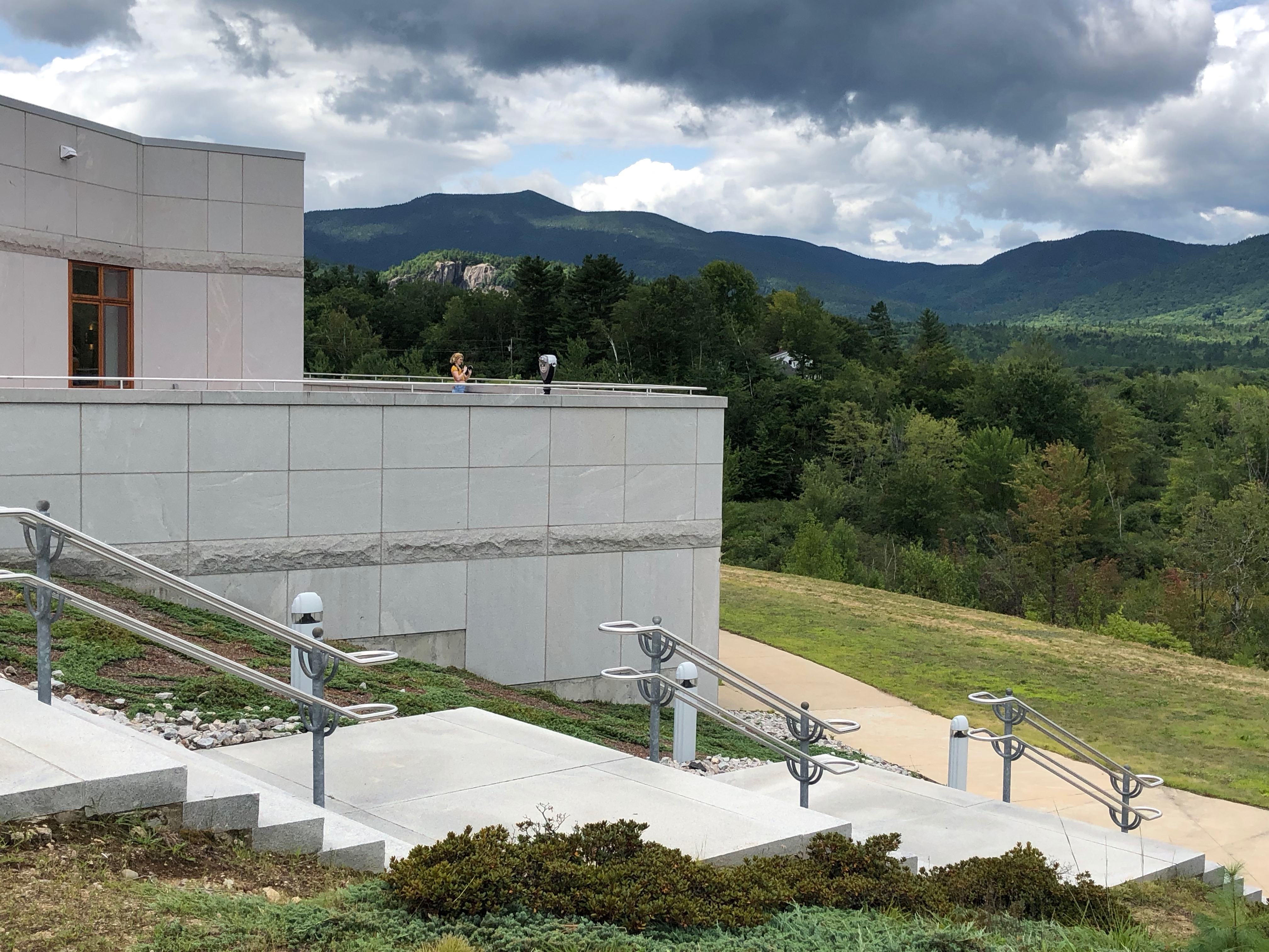 View of the White Mountains (New Hampshire) from the Intervale Scenic Vista in Intervale, New Hampshire